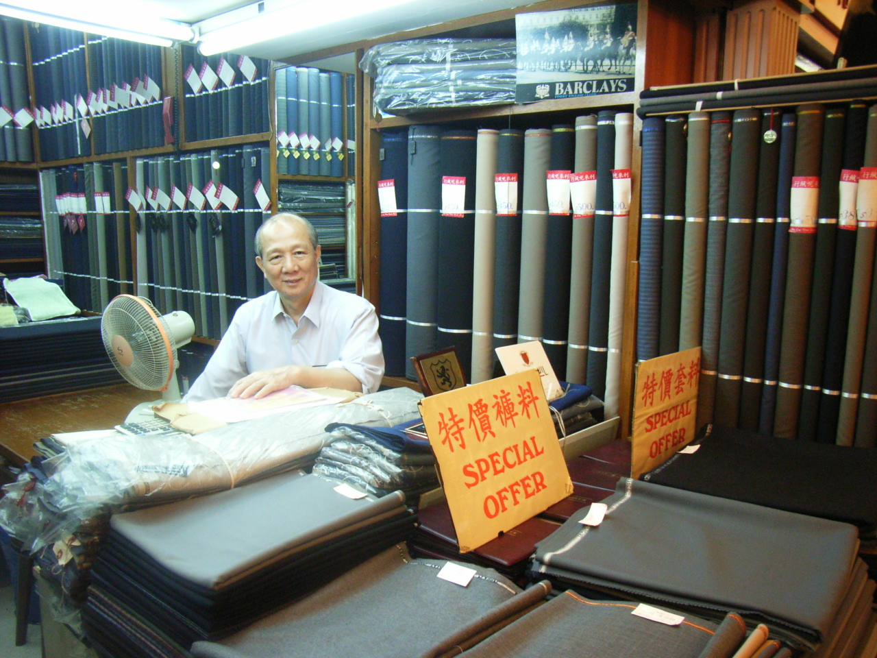 Mr Chan is a cloth dealer who is working on the first floor of Western Market in Sheung Wan Hong Kong. Mr Chan told me he did have a shop in Central before the development of "The Center" 中環中心. Photo token by MRCHAN20SW